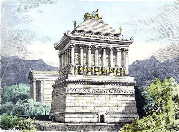 The Mausoleum at Halicarnassus, painting by Ferdinand Knab. Cropped from the original.